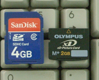 Olympus XD Card